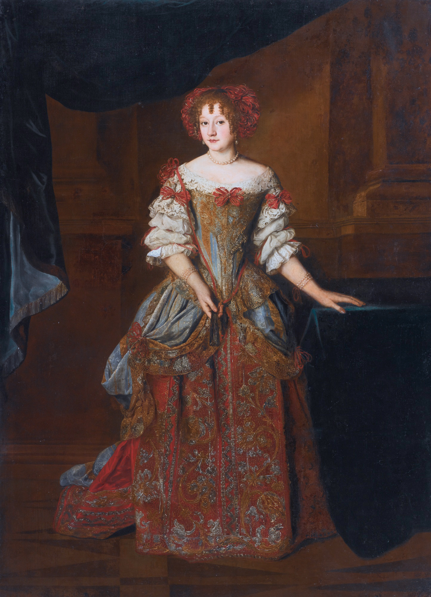 Princess Teresa Pamphilj Cybo (Rome October 14, 1654 - Mass on Aug. 7, 1704), daughter of Prince Camillo Francesco Maria Pamphili and Princess Olimpia Aldobrandini.